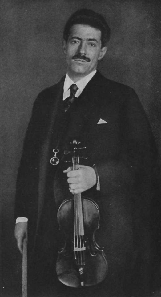 Fritz Kreisler in early 1900